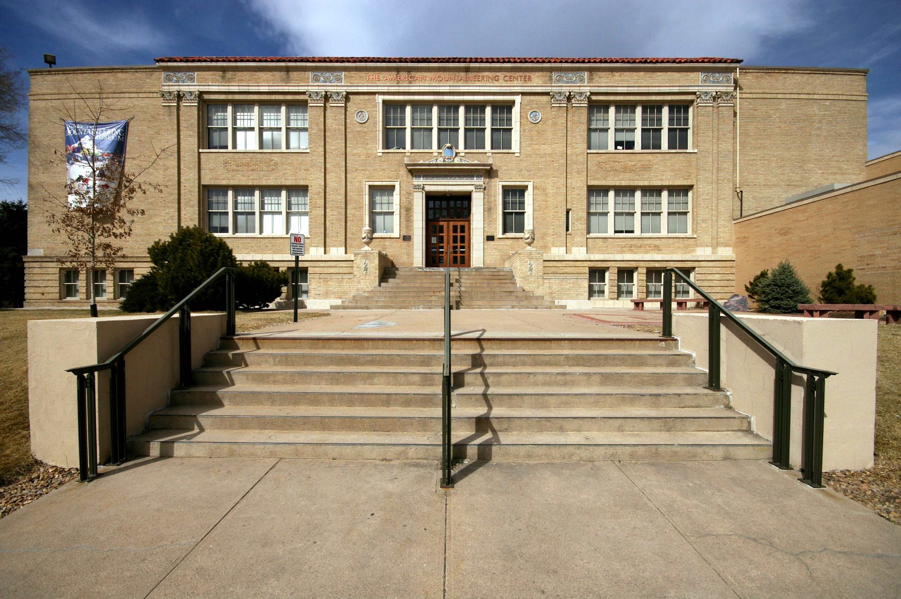 The old Golden High School building in Golden, CO